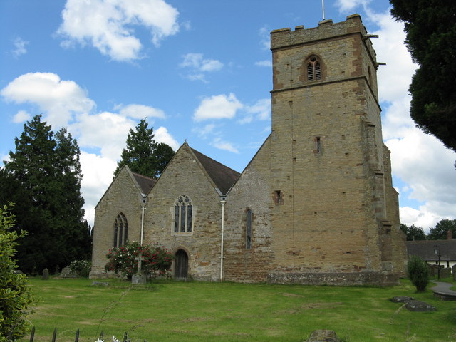 St James the Great parish church, Colwall, Herefordshire, seen from the west